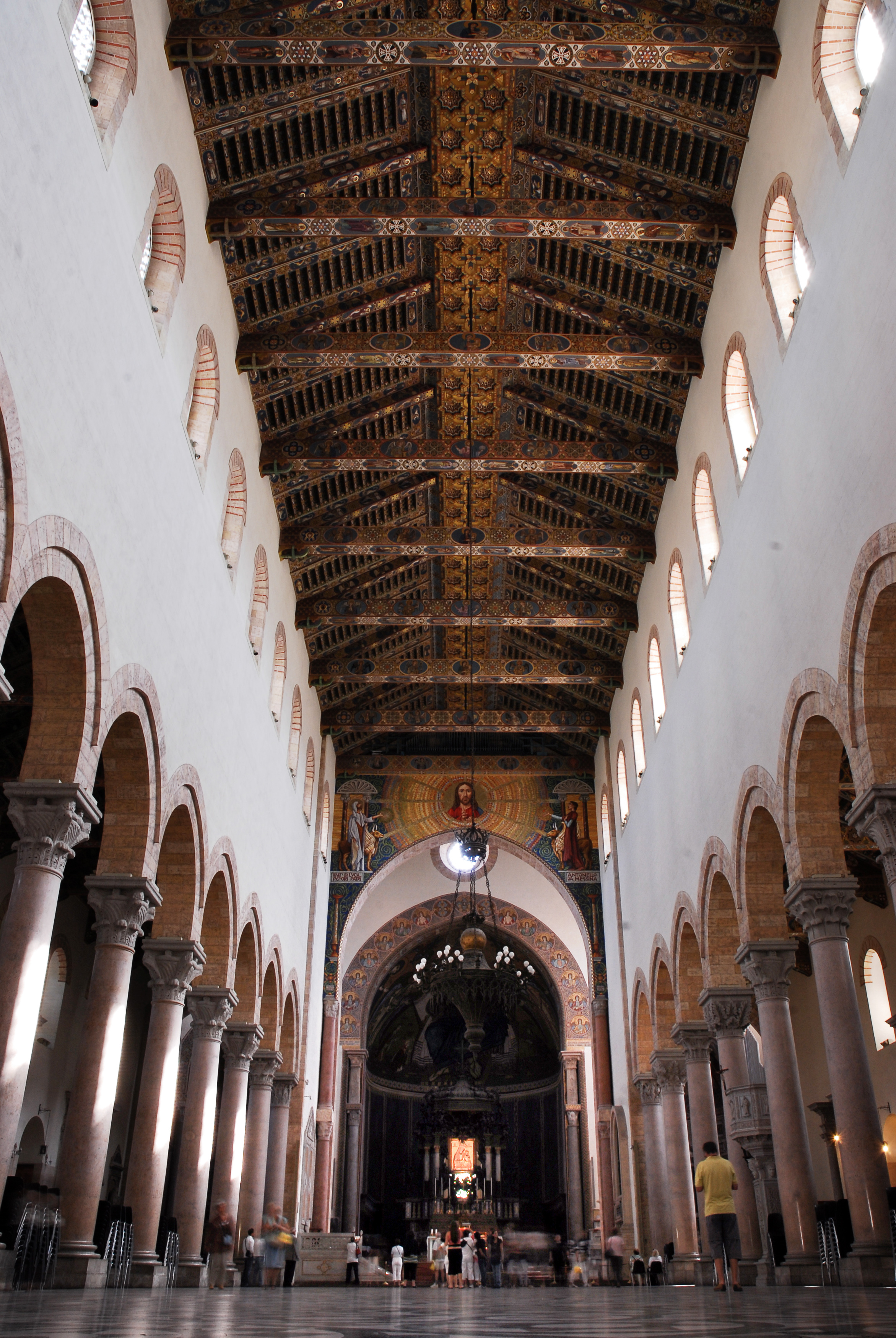 Interior of Santa Maria Assunta, Messina, Island of Sicily, Italy, Southern Europe.